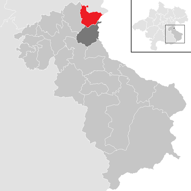 district Steyr-Land